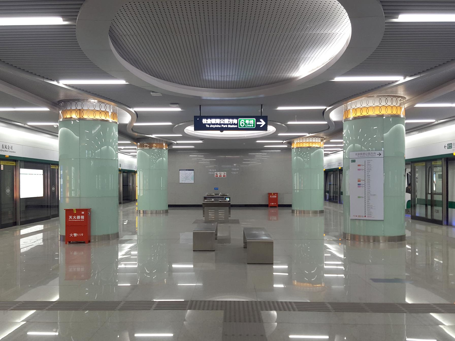 Platform of Dongfeng Motor Corporation Station, Wuhan Metro Line 6